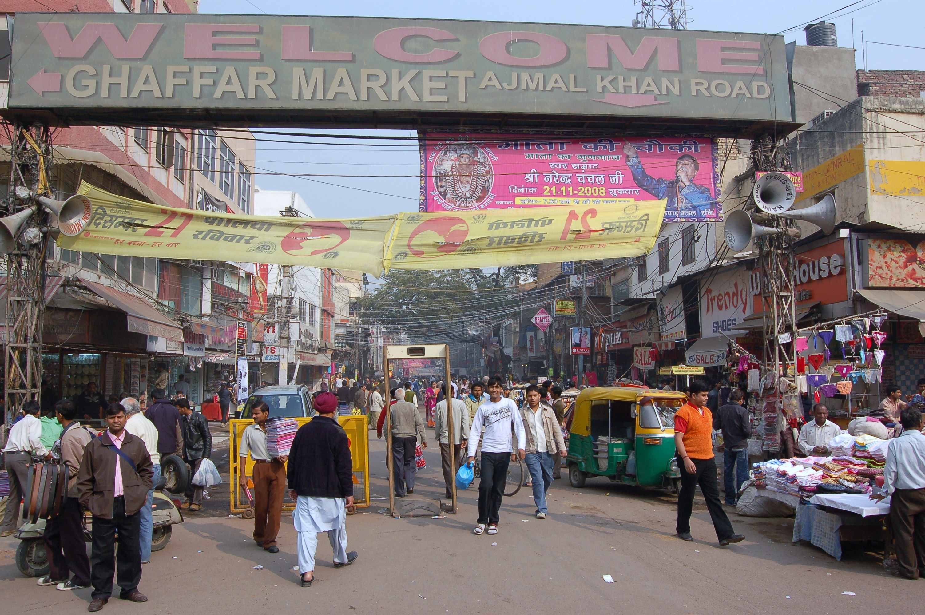 A street scene in Ajmal Khan Road, Karol Bagh, Delhi, India.